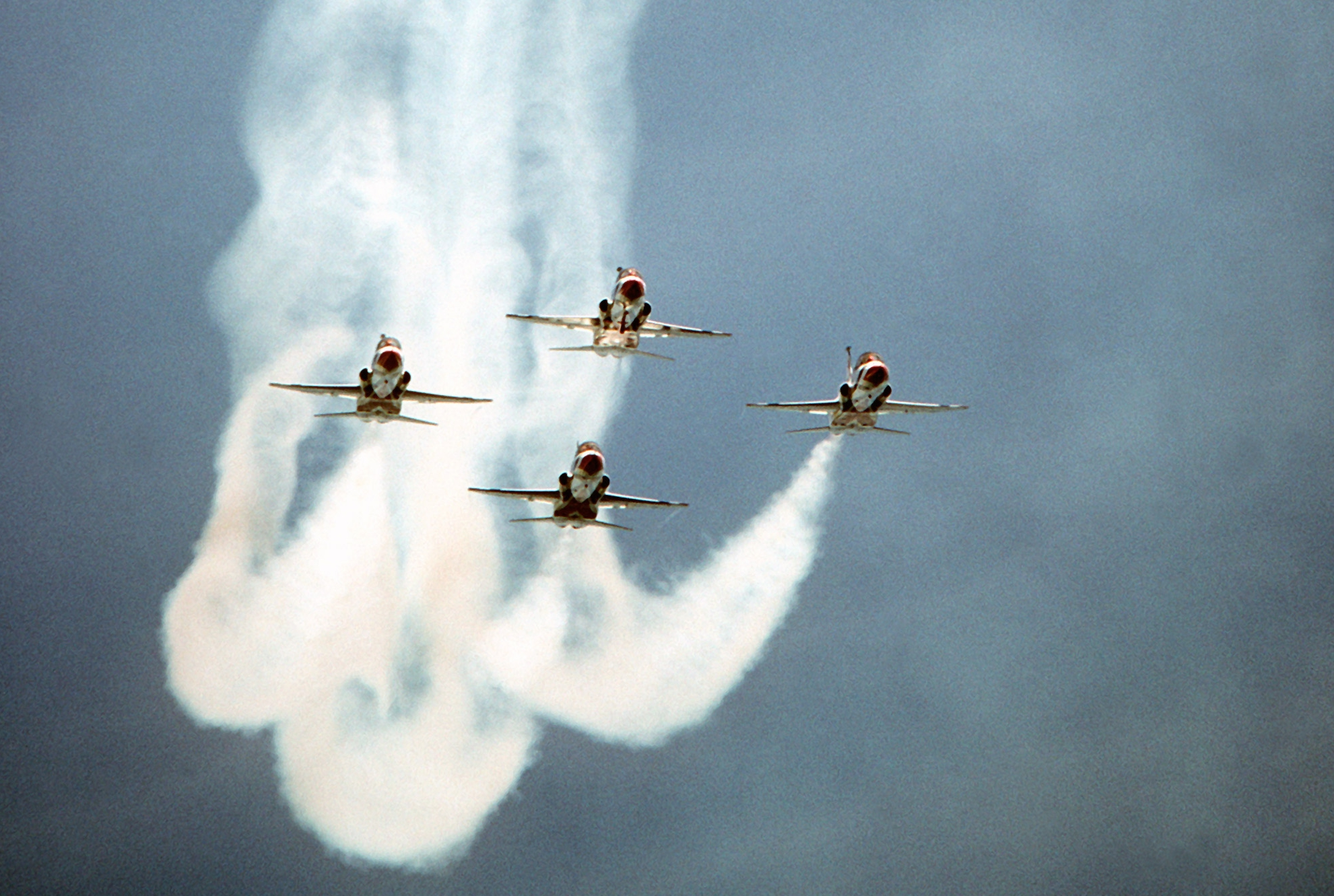 Four Northrop T-38A Talon aircraft of the U.S. Air Force flight demonstration team Thunderbirds during an airshow at Wilmington, North Carolina (USA), in 1980.